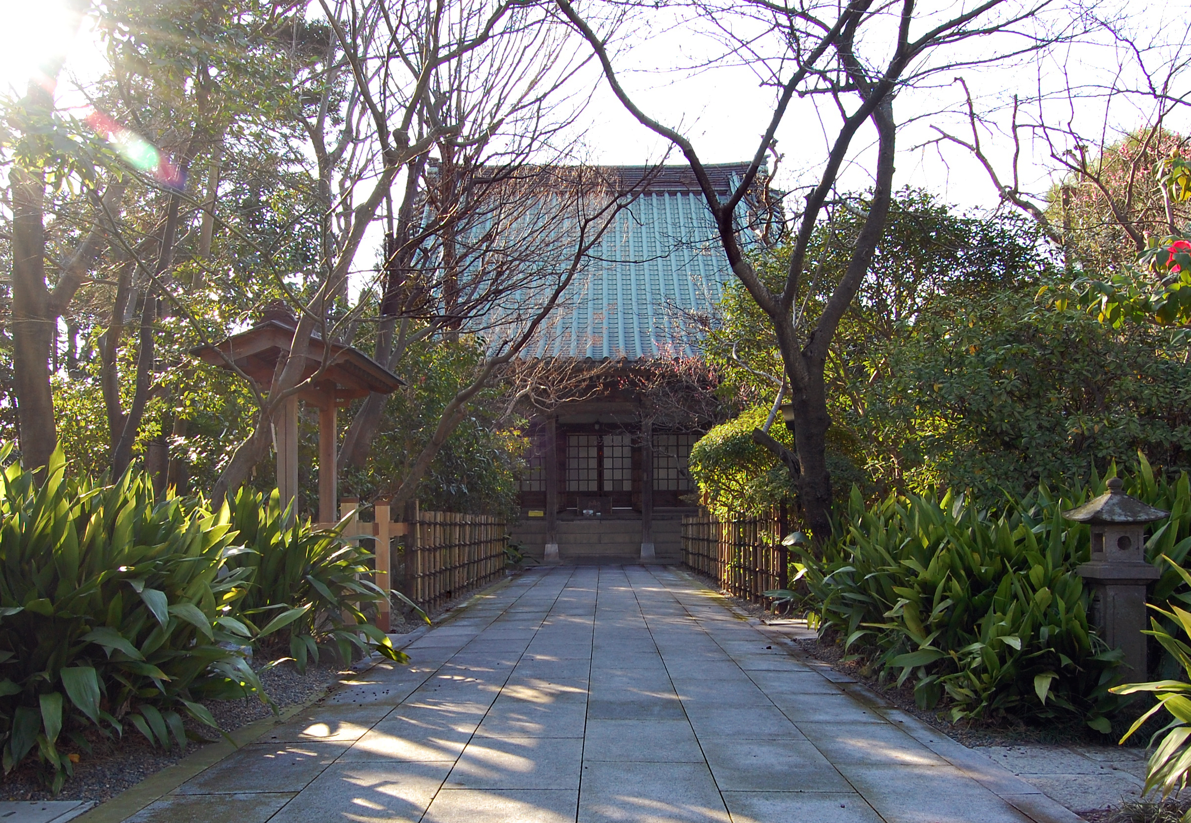 "Shojoji" is the temple which is Kisarazu city,Chiba,Japan